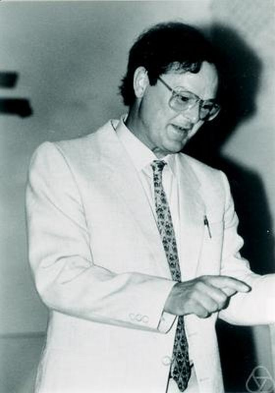 Wolfgang Schwarz 1987